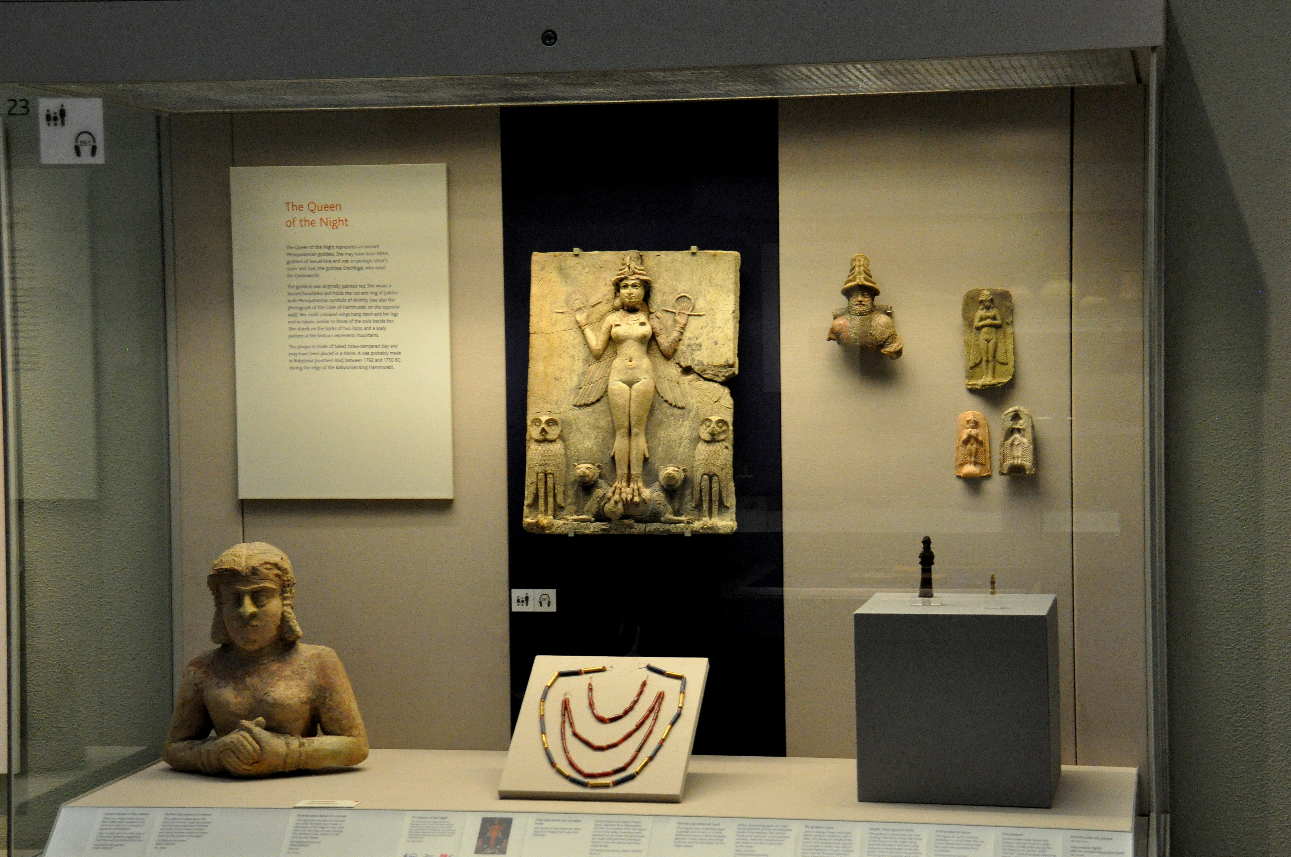 Burney, or the Queen of the Night, relief inside a display case. The British Museum, London